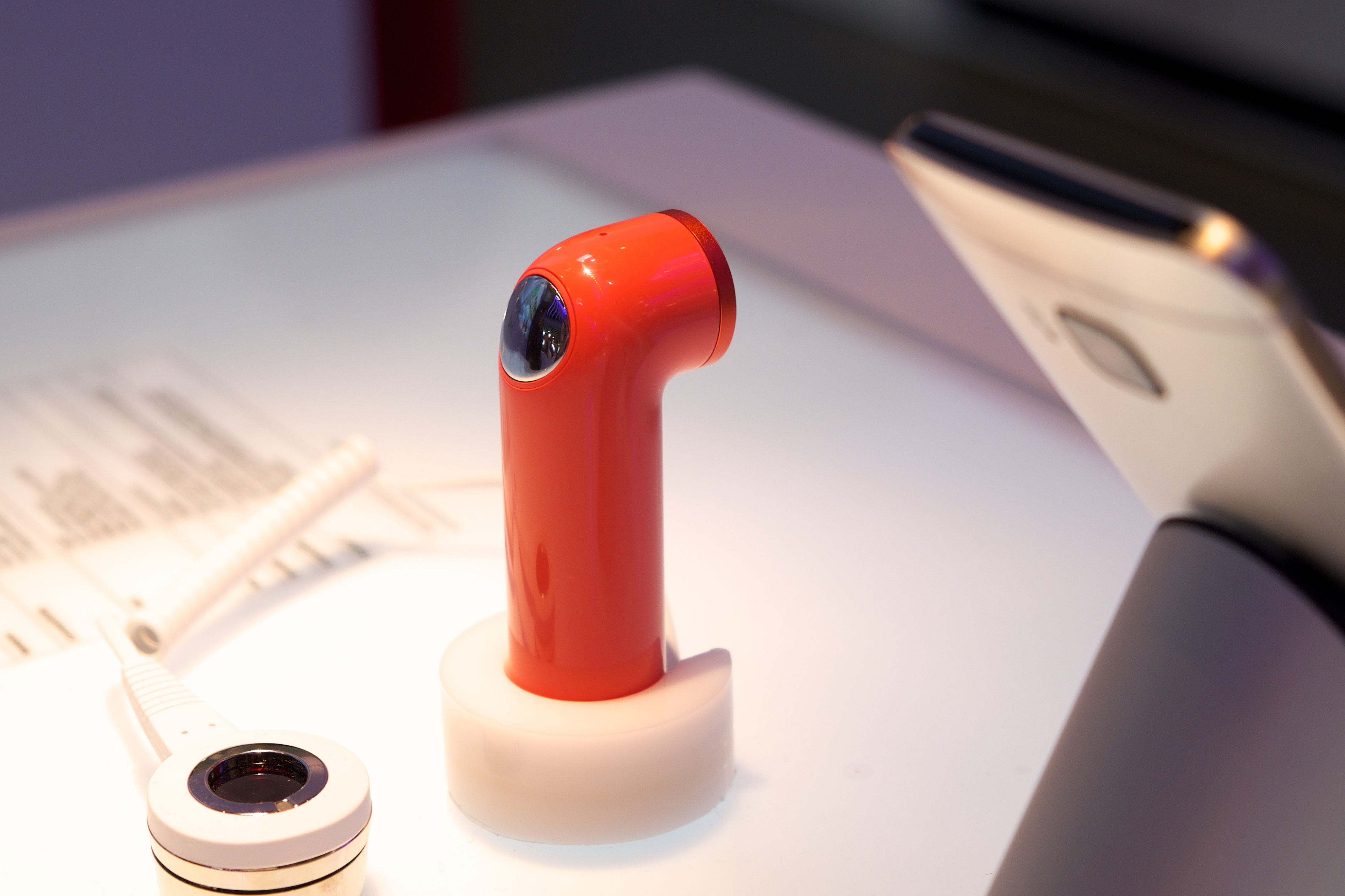 HTC at Mobile World Congress 2015 Barcelona